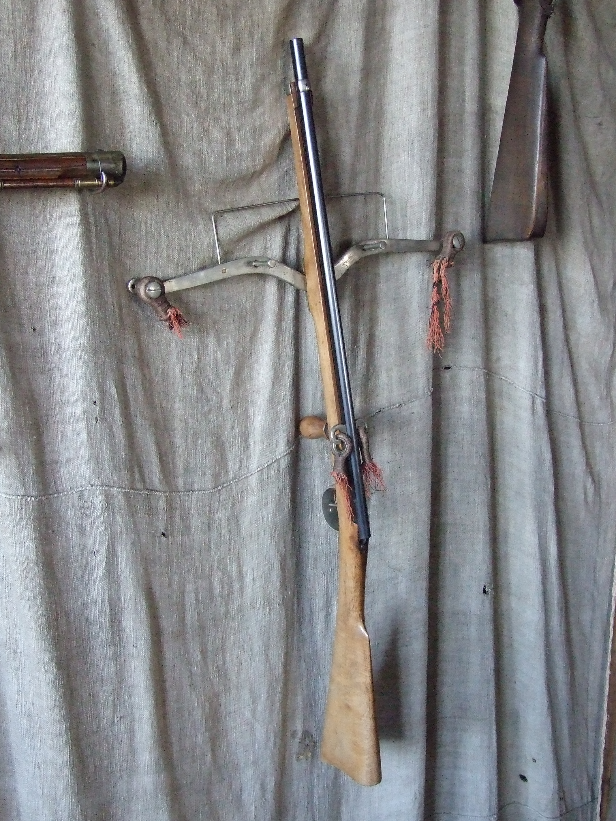 Opočno castle